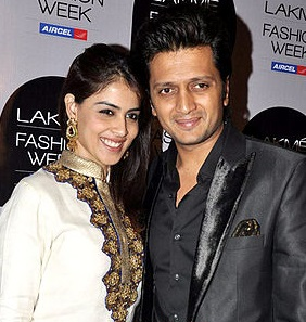 Genelia D'Souza and Ritesh Deshmukh at the Vikram Phadnis's Swades show at Lakme Fashion Week 2013.